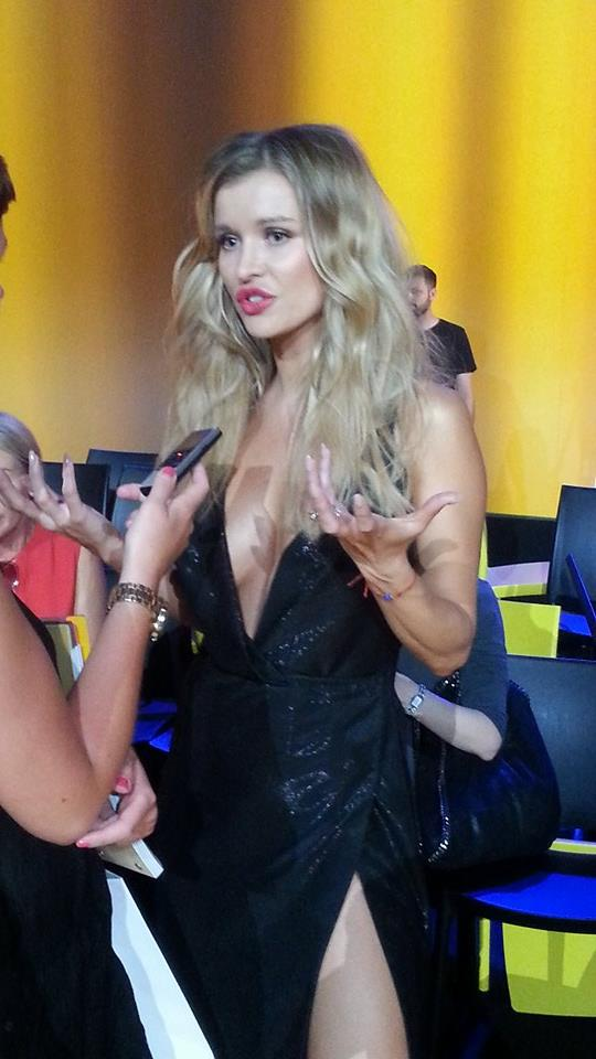 Joanna Krupa, Polish model and "Poland's Next Top Model" host, on the TVN autumn programming in 2016.